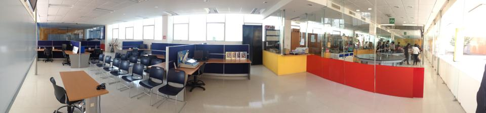 Salón de practicas CECTEC